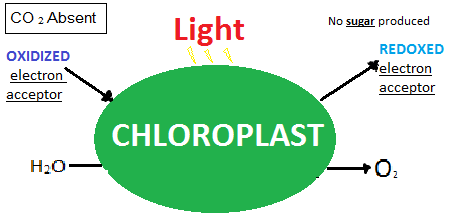 A diagram of the Hill reaction which shows that with the absence of CO2 there will be no sugar production from the chloroplast of a plant.